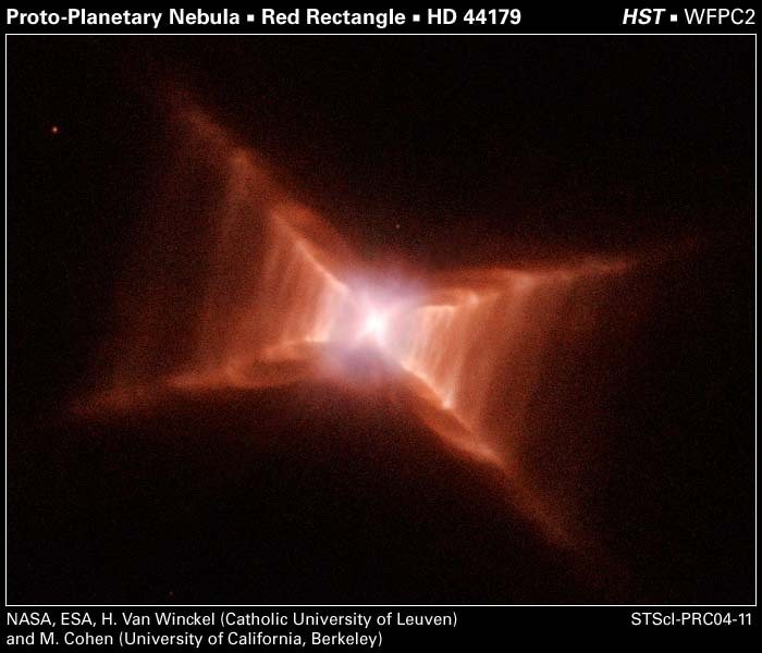 Protoplanetary Nebula HD 44179